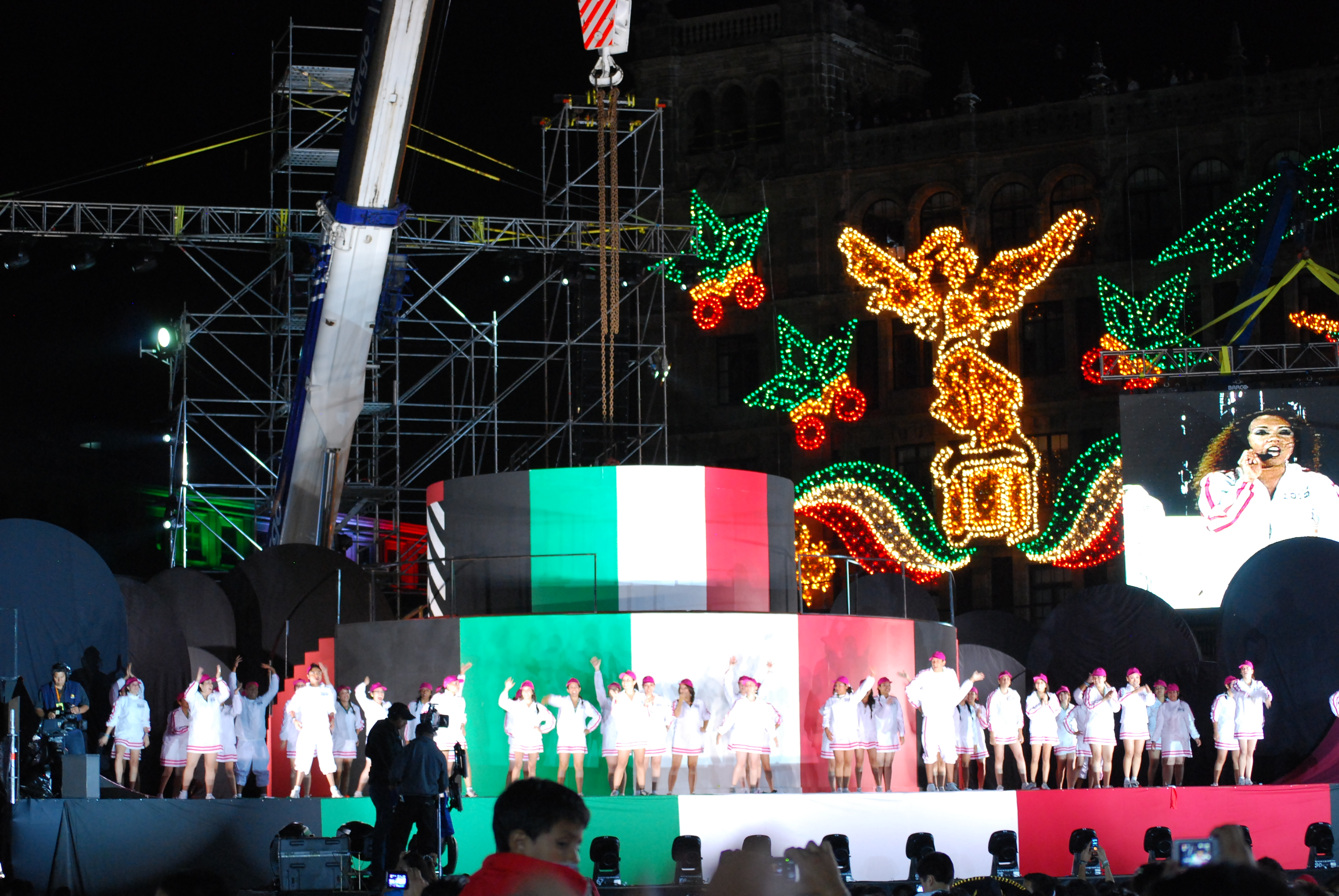 Cheerleaders performing on the southeast stage of the Zocalo before the Grito 2010